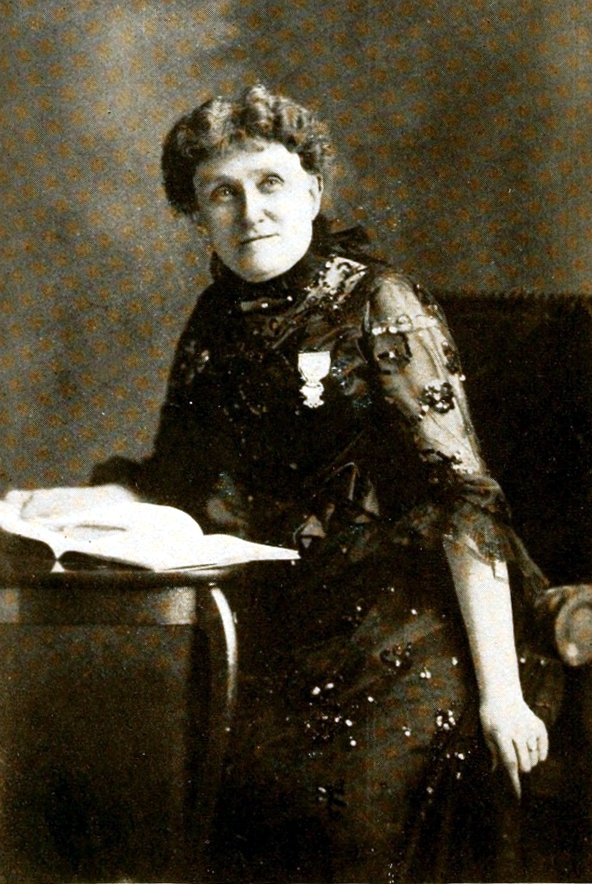 Flora Adams was a direct descendant of John Quincey Adams. She married Southerner named "Darling." They married in 1860 and the American Civil War srated soon afterwards. After that war this woman worked to heal wounds of both North and South. This woman founded the Daughters of the American Revolution. From Darling, Flora Adams, 1840-1910. "1607-1907. Memories of Virginia: a Souvenir of Founding Days." Washington D.C.: B. S. Adams, 1907.